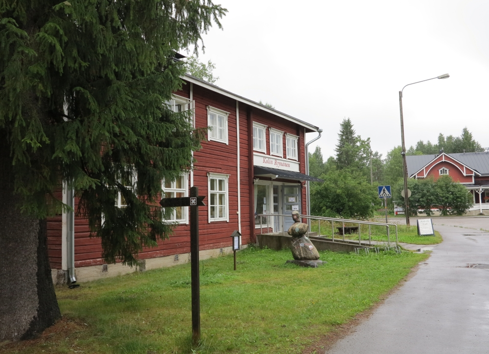 Kolin Ryynänen, a culture and art centre and hostel